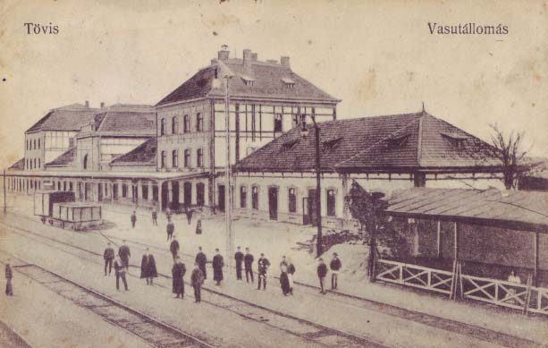 Postcard of village Tövis (Hungary, now Teiuş, Romania)